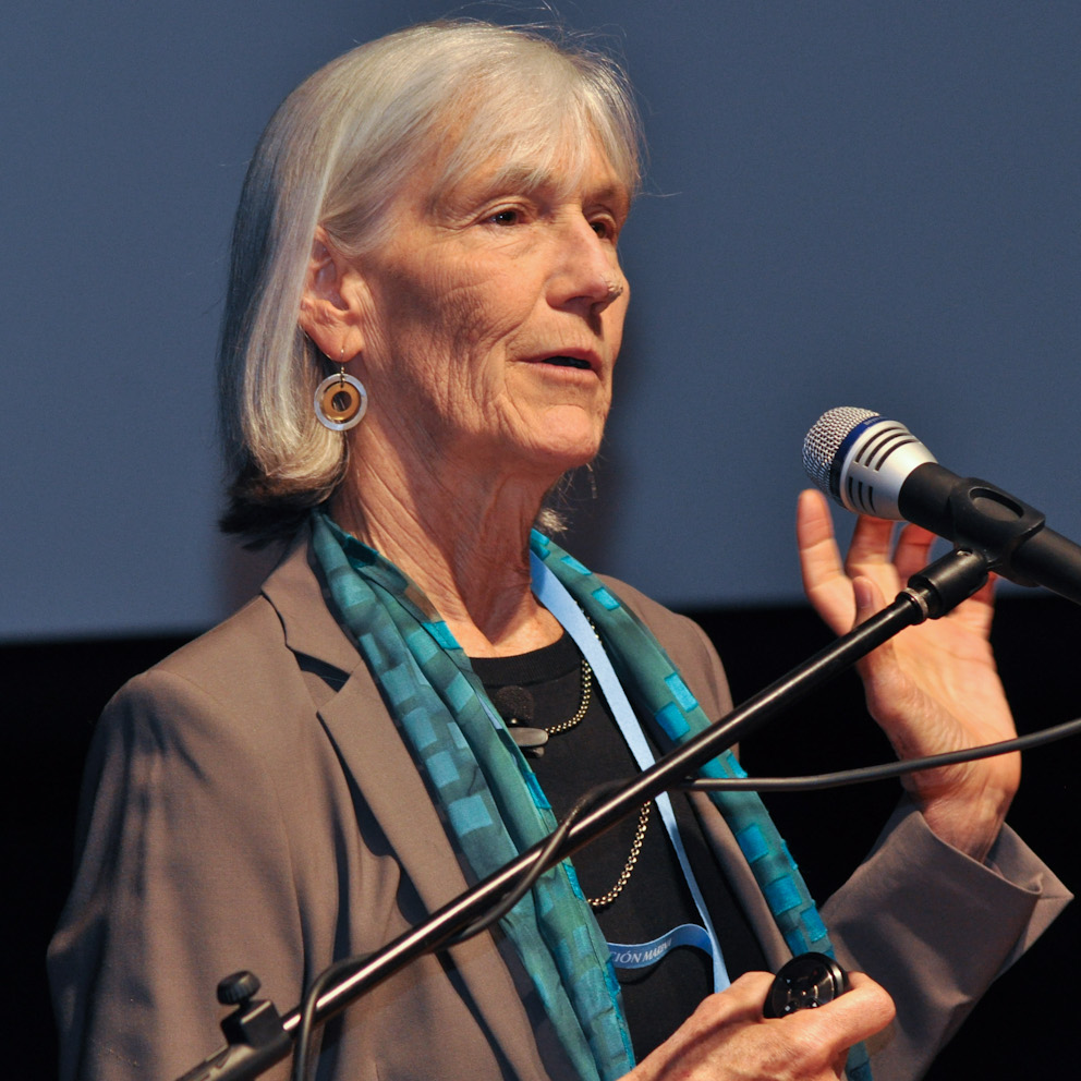 Julie Packard, the executive director of Monterey Bay Aquarium, participates in a seminar organized by public, private and academic institutions.